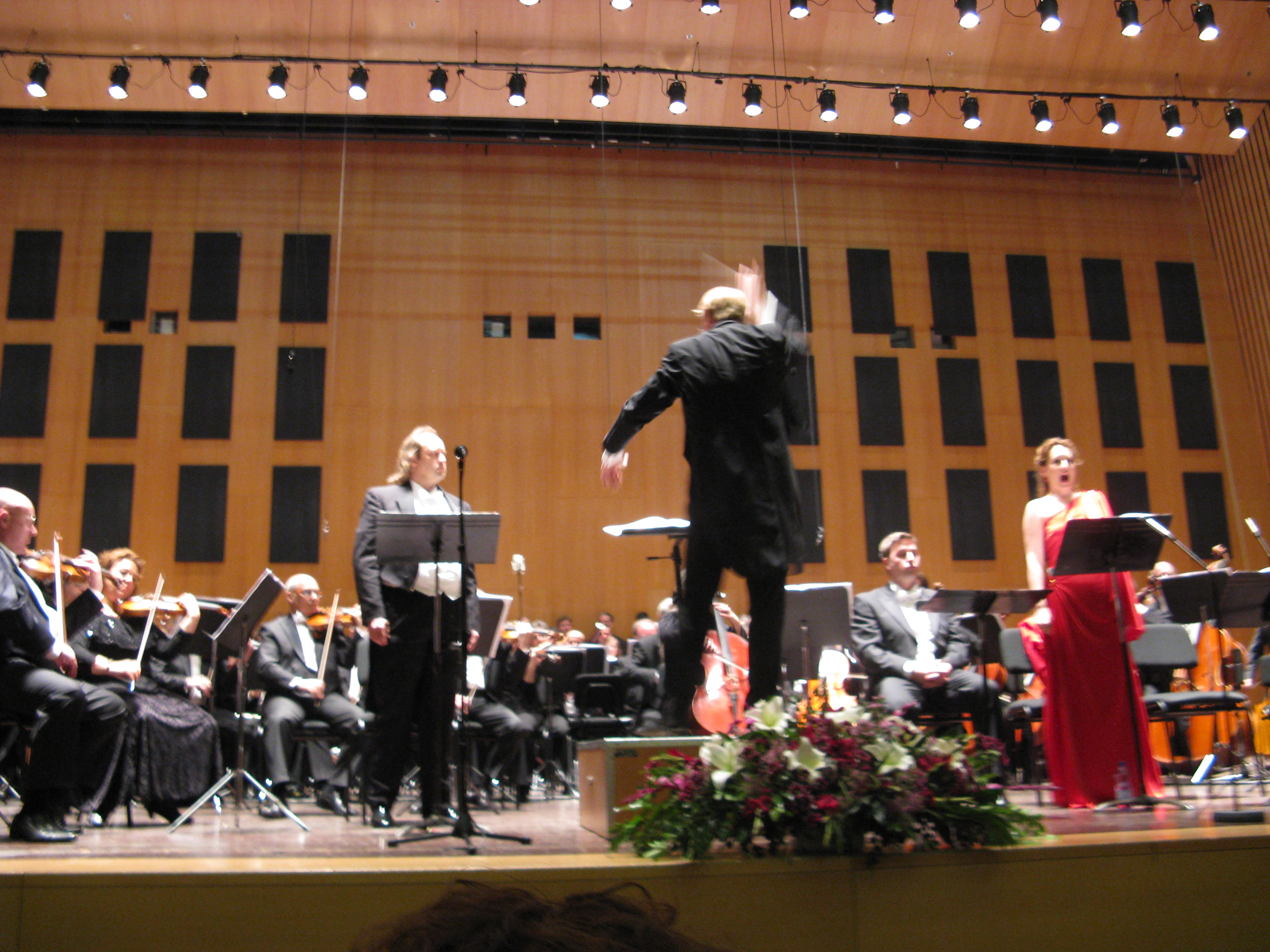 Performance of Paul Ben-Haim's Yoram Oratoria, in Smolarz Auditorium, Tel Aviv University, 3rd April 2012. In the photo: Katharina Persicke, soprano; Carsten Süs, tenor; Bernd Valentin, baritone; Hayko Siemens, condunctor.